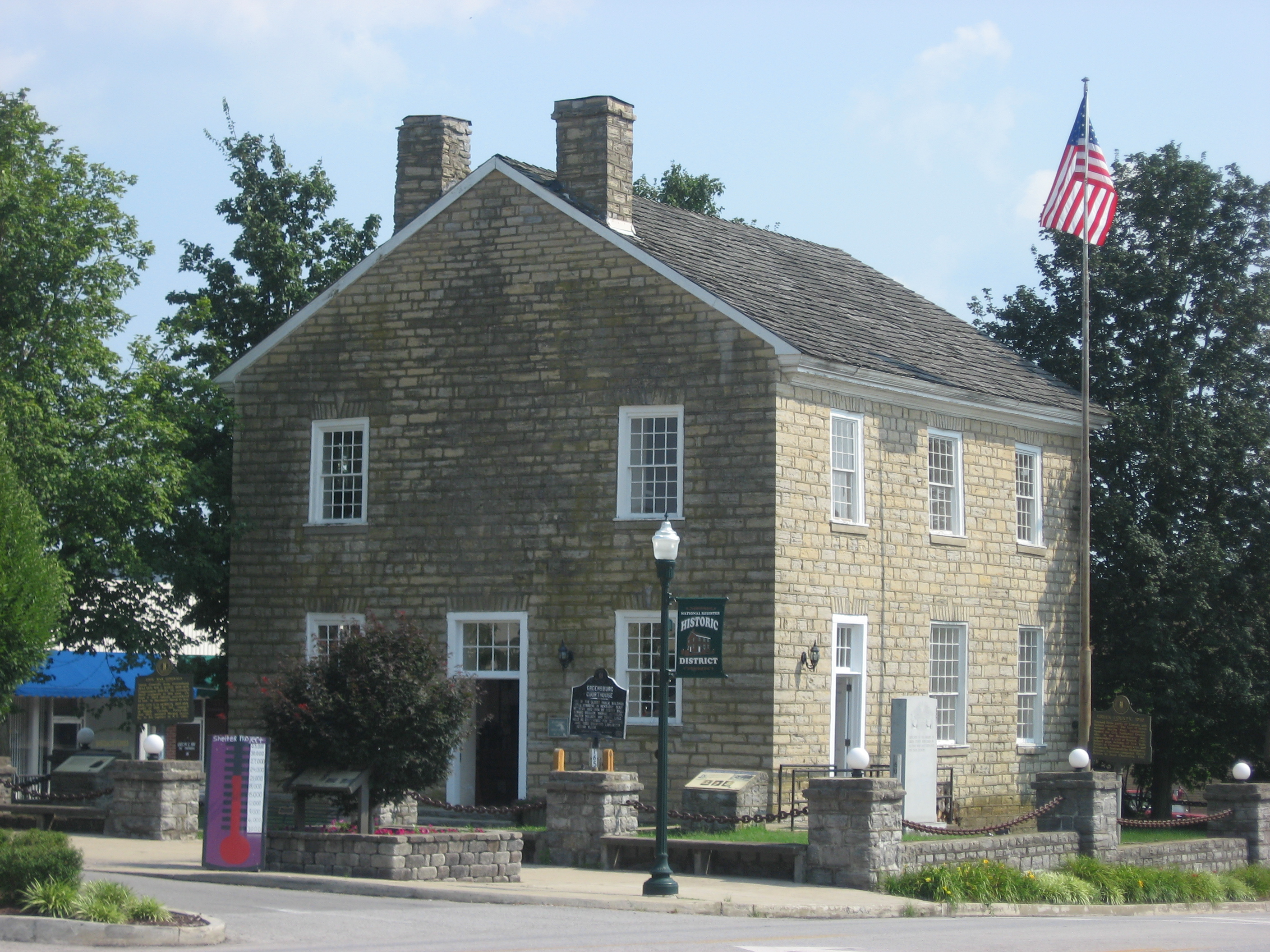 Northern and western sides of the Old Green County Courthouse, located on the public square in Greensburg, Kentucky, United States. Built in 1803, it is the oldest surviving courthouse west of the Appalachian Mountains. It is listed on the National Register of Historic Places, and it is part of a Register-listed historic district, the Downtown Greensburg Historic District.